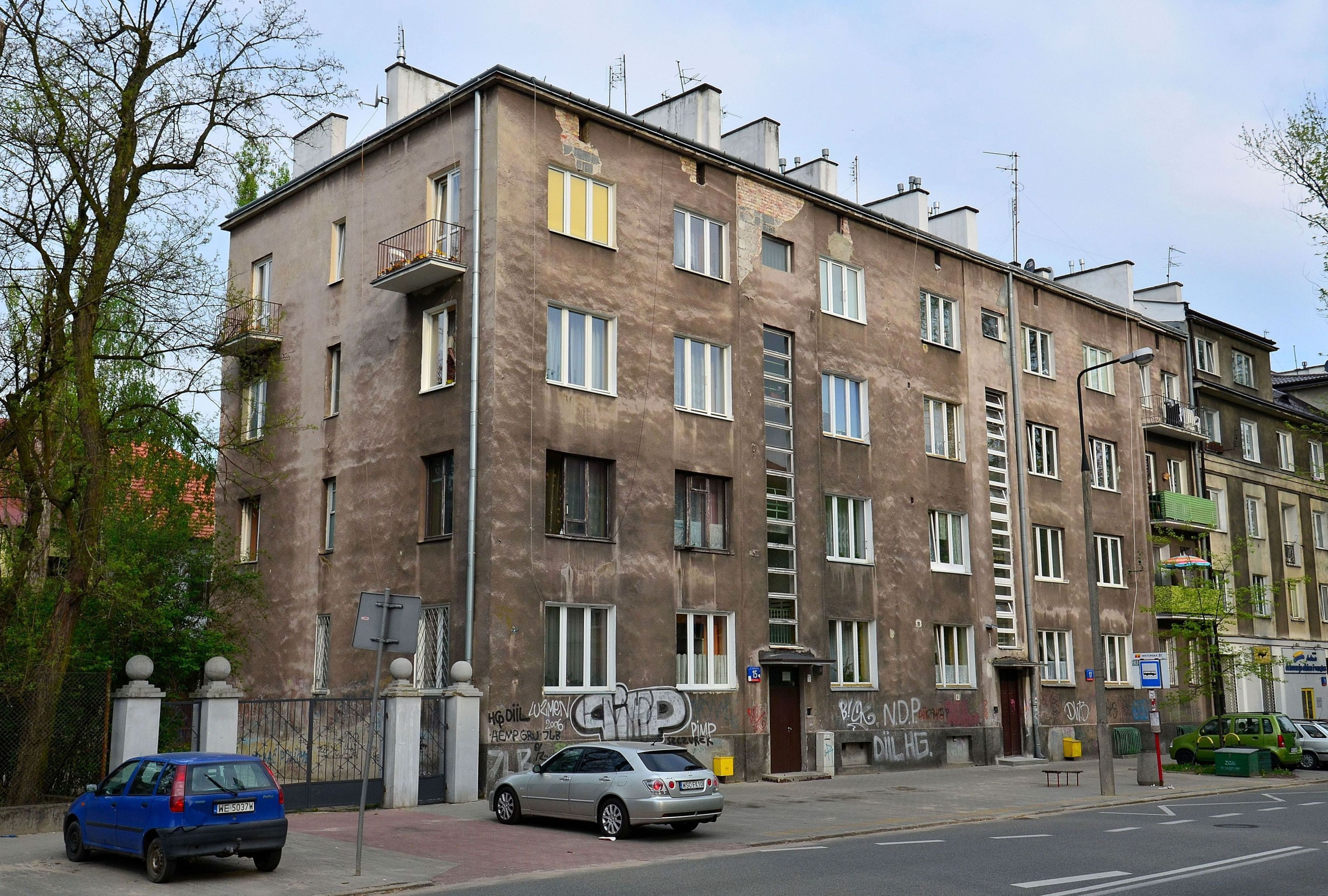 Tenement house at 15 Kazimierzowska Street in Warsaw